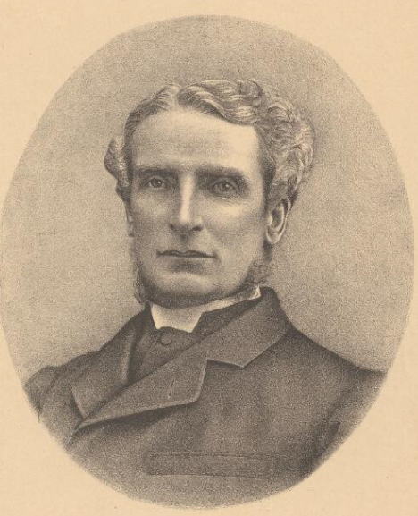 Reverend George William Torrance (1835-1907) Musical Doctor, Anglican Irish-Australian composer